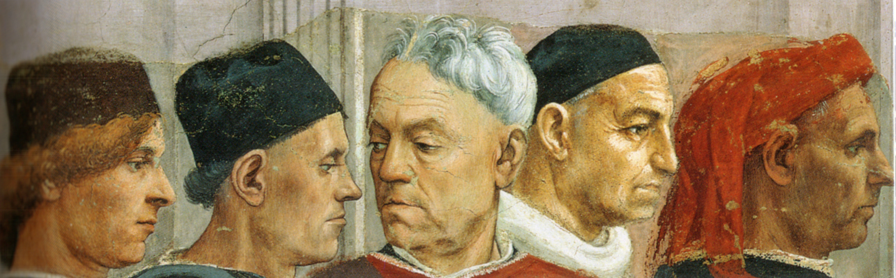 Raising of the Son of Teophilus and St. Peter Enthroned